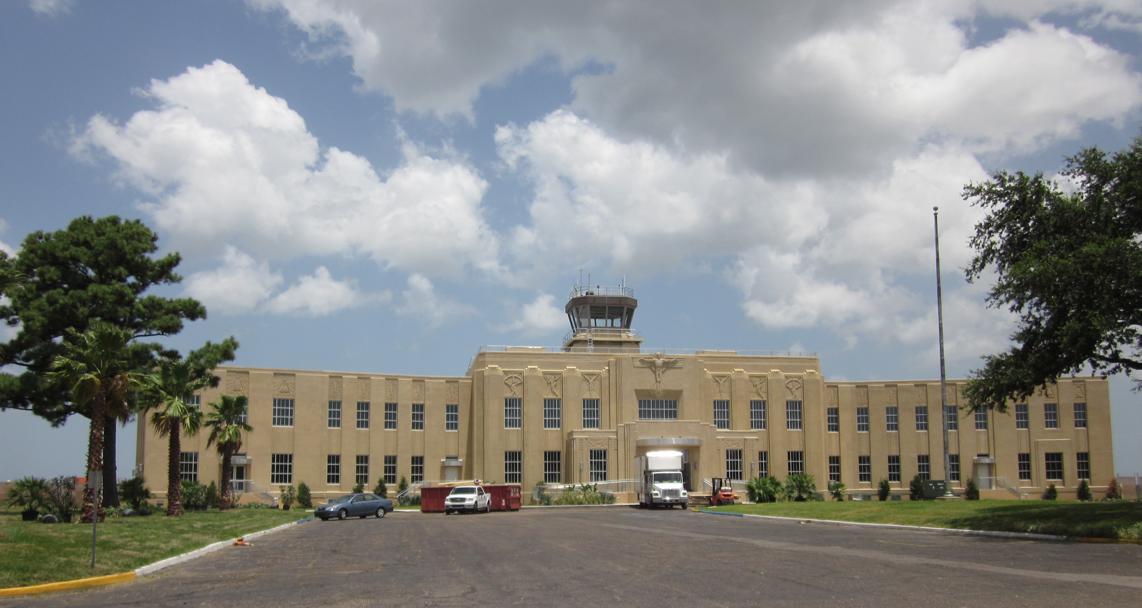 New Orleans Lakefront Airport. Front exterior of main terminal building, recently restored to its original 1930s Art Deco appearance.